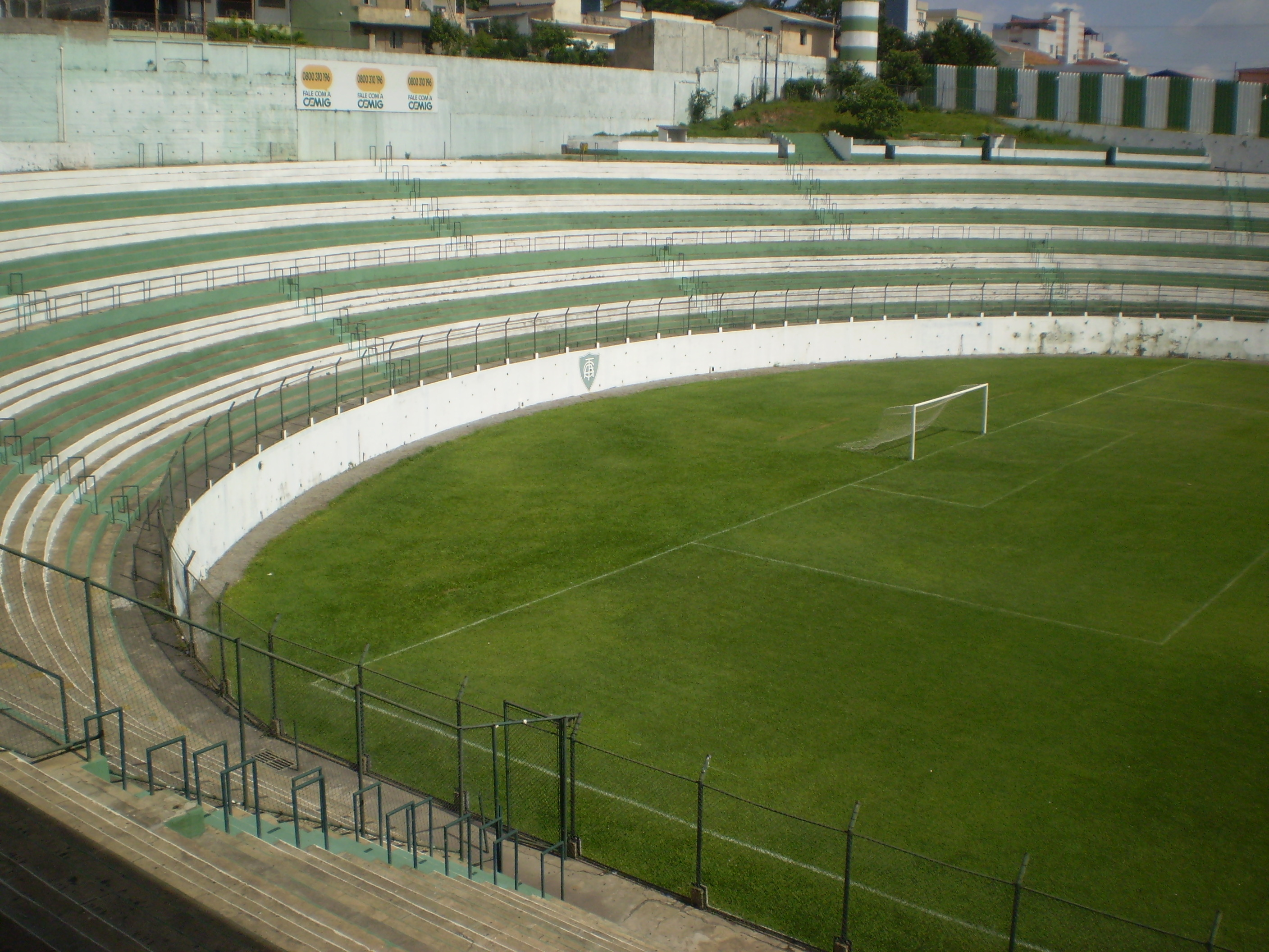 The interior of the Estádio Independência - left hand goal (as you enter through main gate)